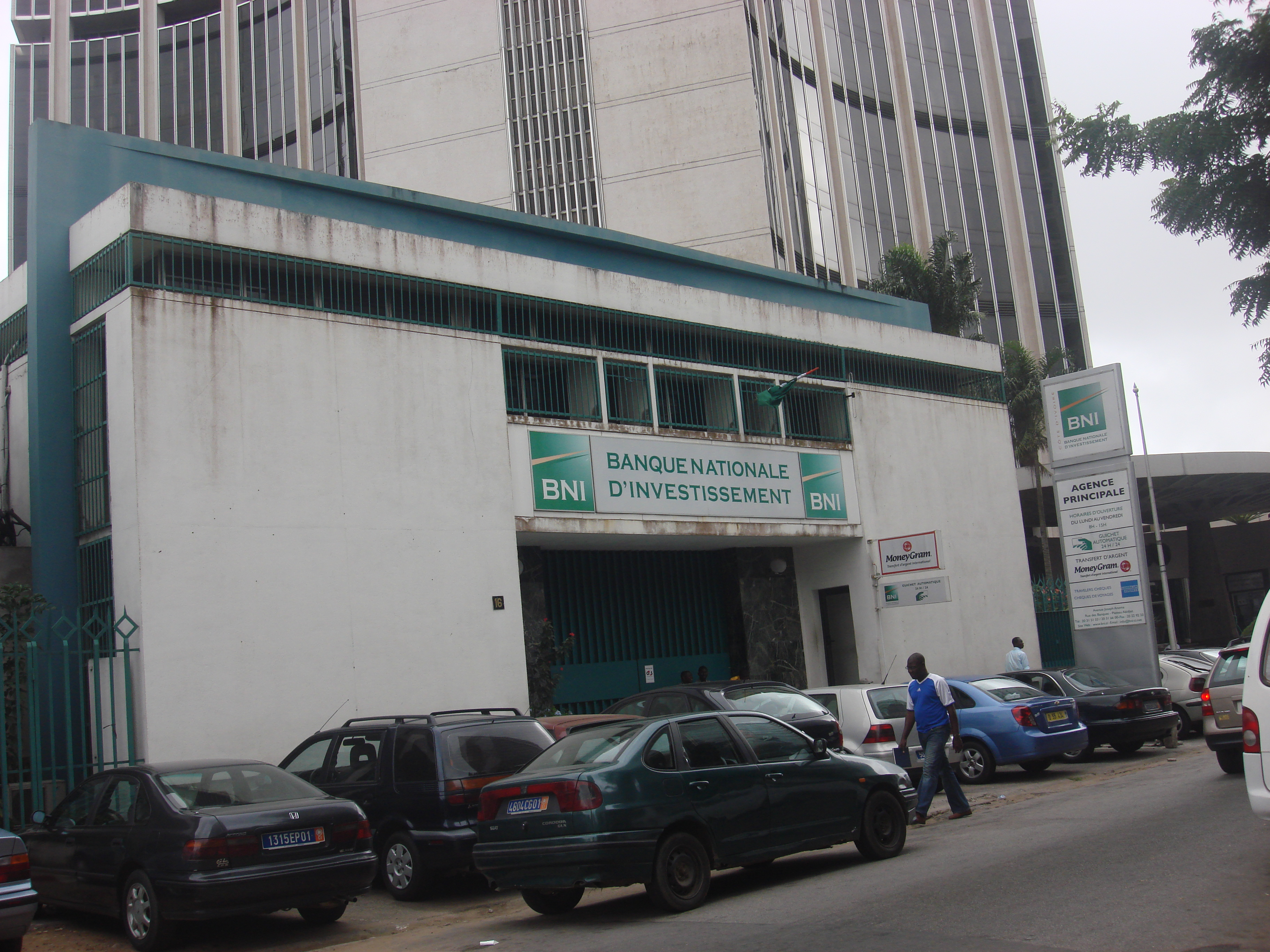 Banque nationale d'investissement (BNI, "National investment bank") on Avenue Joseph-Anoma (rue des banques or "bank street") in Plateau, Abidjan, Côte d'Ivoire